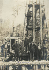 Pile driving crew at Knox Bay, West Thurow Island in 1917